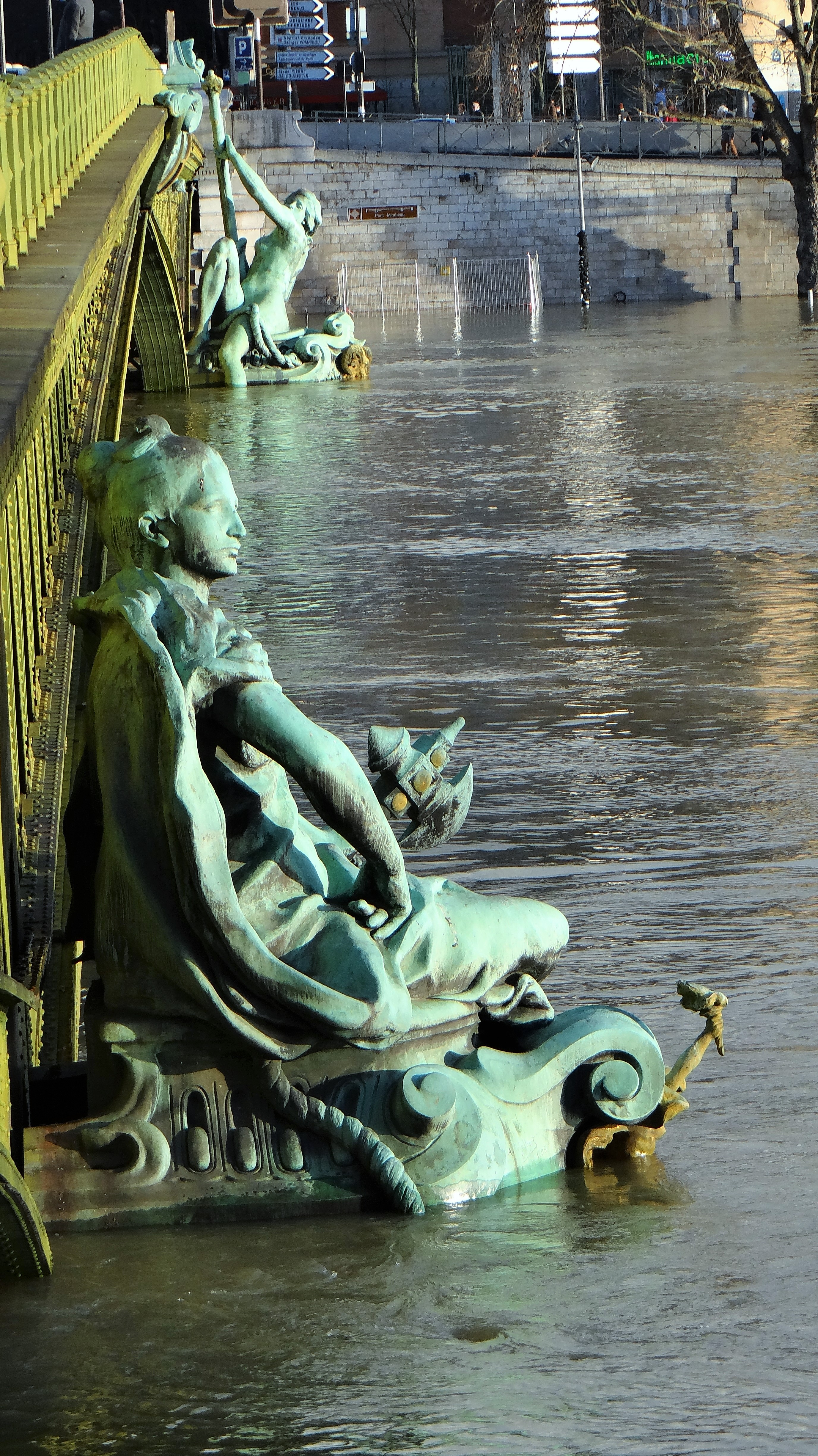 Mirabeau Bridge in Paris during the flood of the Seine in January 2018